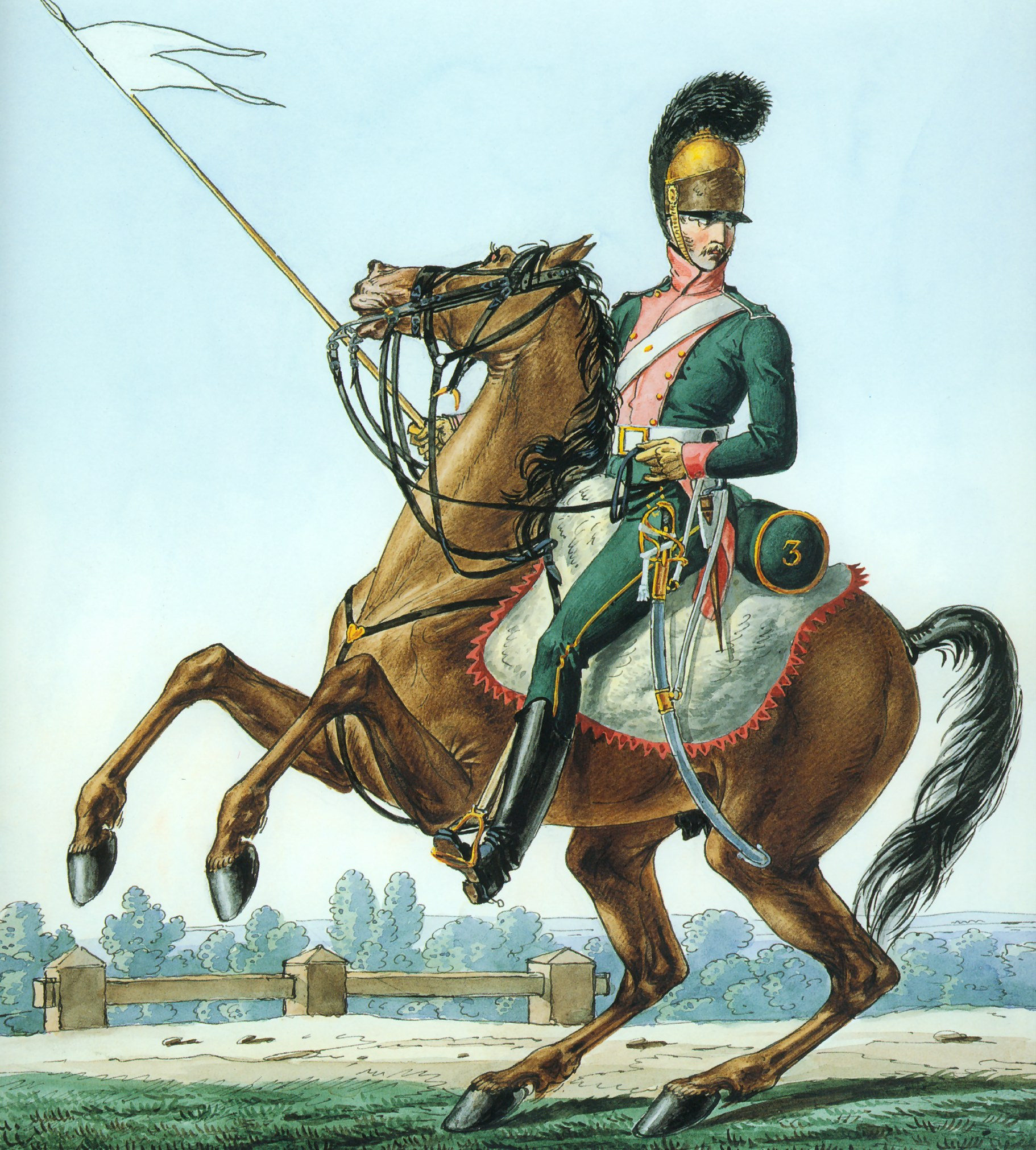 Part of a series chronicling the uniforms of Napoleon's Grande Armée.